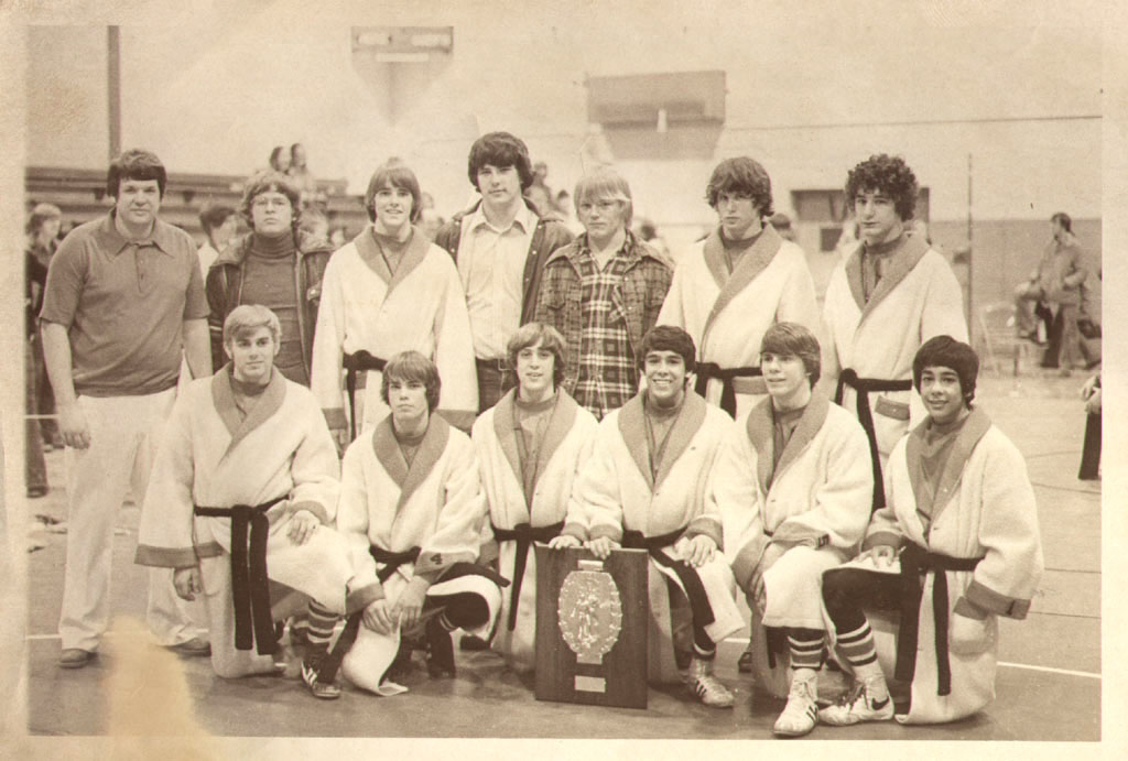 Dennis Hastert while he was a High School Wrestling Coach